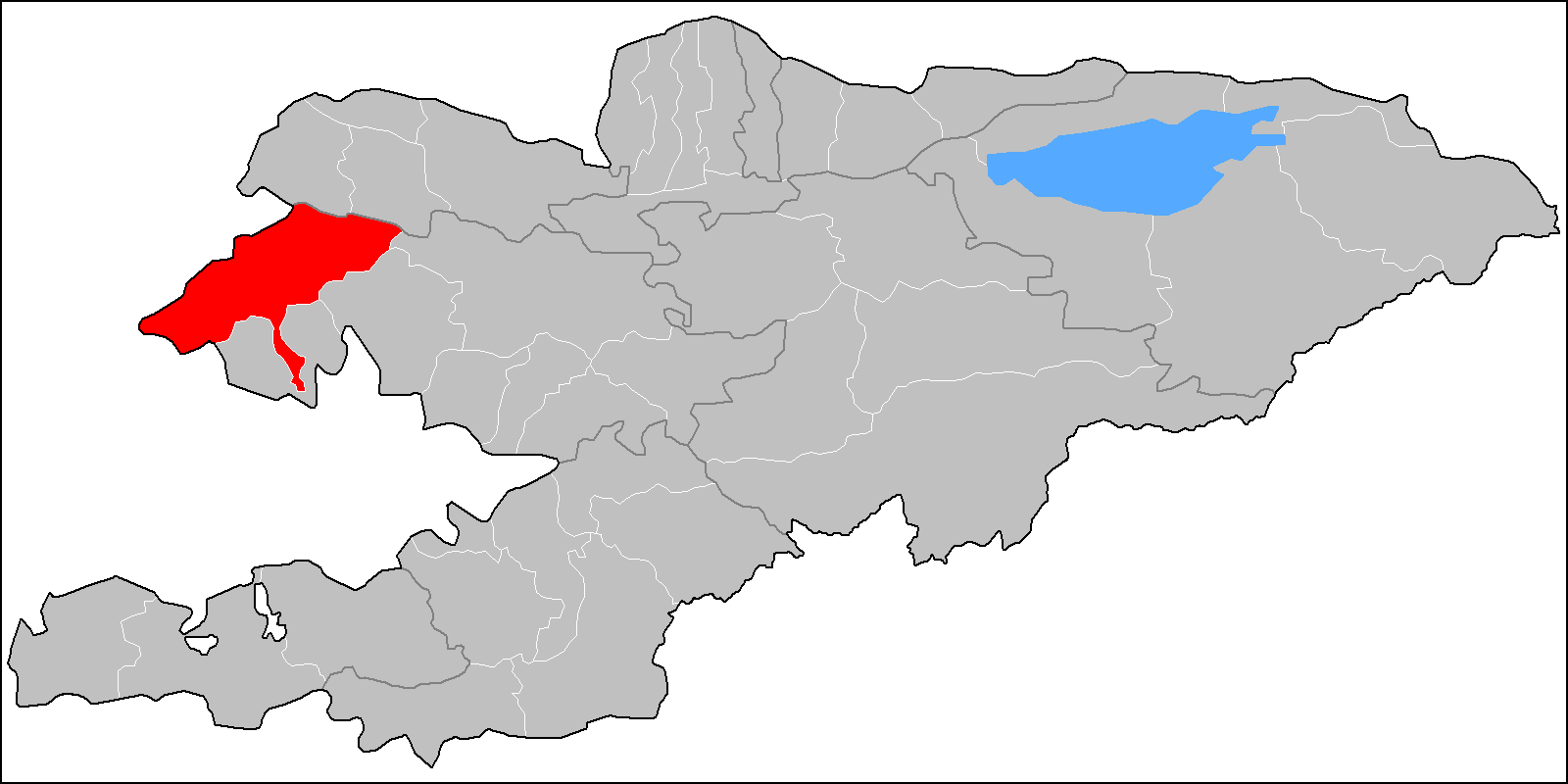 The location of the raion (district) of Chatkal in Kyrgyzstan. Based on Image:Kyrgyzstan raions.png